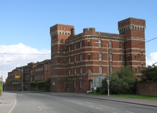 Le Marchant Barracks. A plaque on the side of the building reads: Le Marchant Barracks The Home of the Wiltshire Regiment (Duke Of Edinburgh's) 1878-1967 Regular Recruits For The Regiment, volunteers, militiament, territorials, home guard and cadets trained here